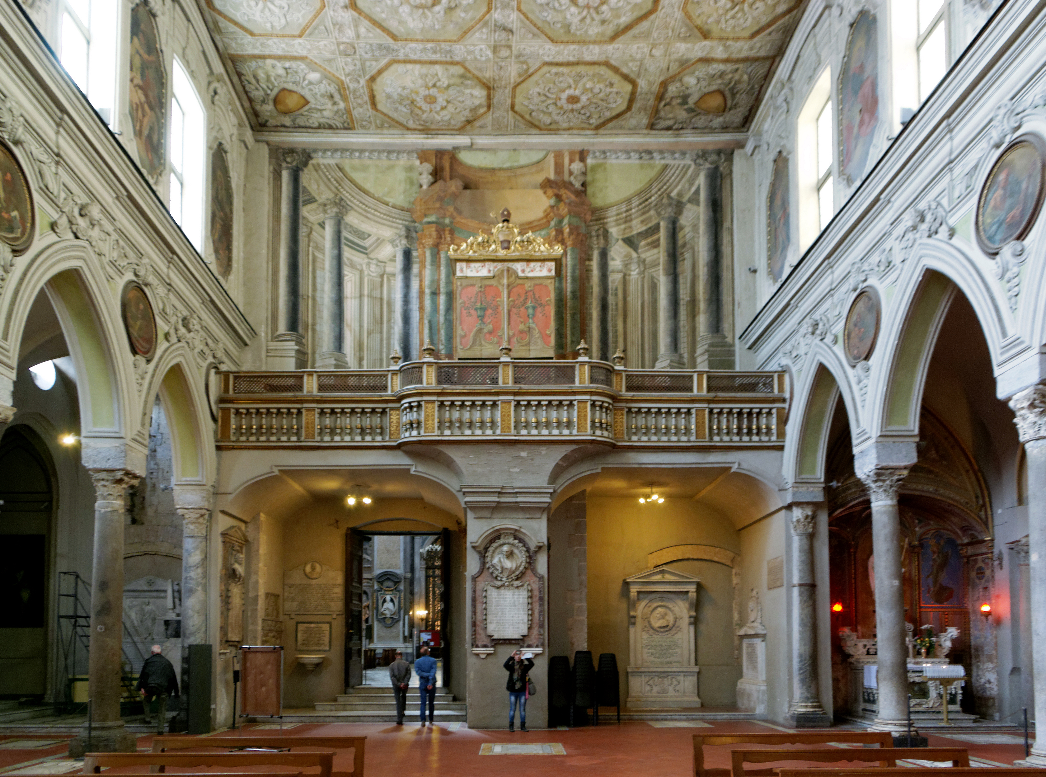 Naples, cathedral, Basilica di Santa Restituta